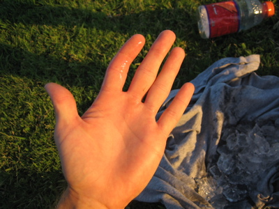 Photograph of dislocated left index finger